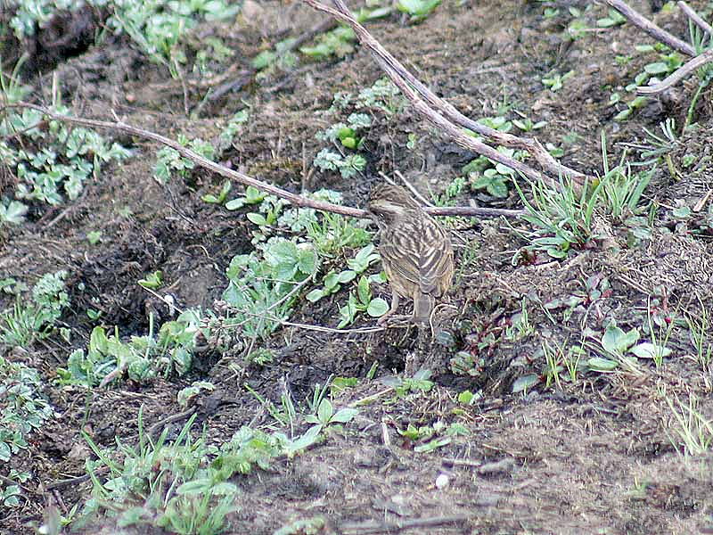 Pink-browed Rosefinch Carpodacus rodochroa in Kullu District of Himachal Pradesh, India.